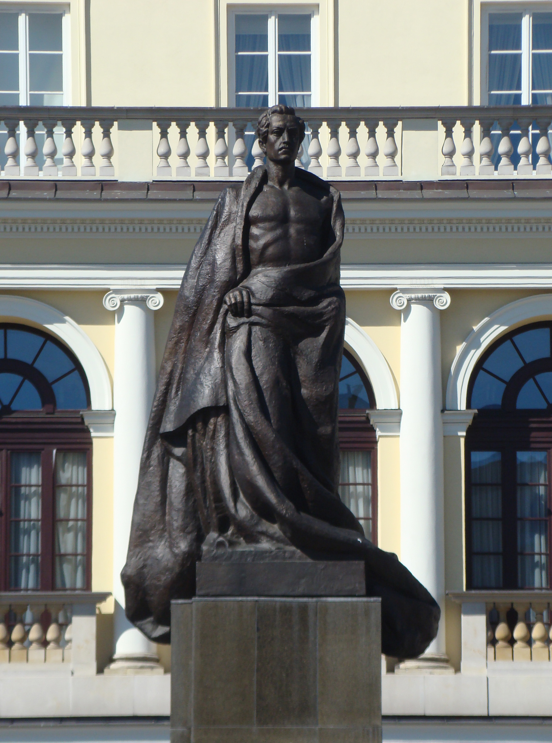 Monument of Juliusz Słowacki in Warsaw